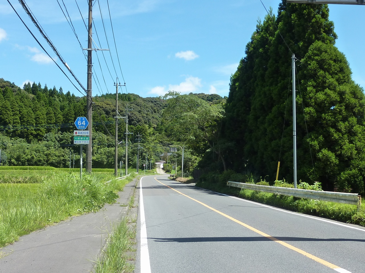 Kagoshima Prefectural Road No.64:Osaki-Kihoku Line (Kihoku-cho Shimo-Mobiki, Kanoya City, Kagoshima, Japan)